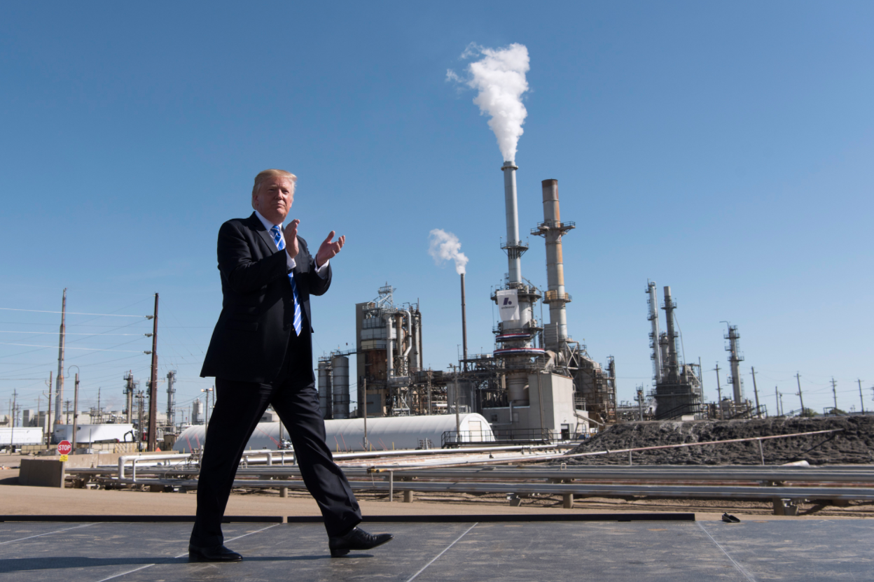 President Donald J. Trump attends a tax reform for energy workers event at Andeavor Refinery, Wednesday, September 6, 2017, in Mandan, North Dakota.